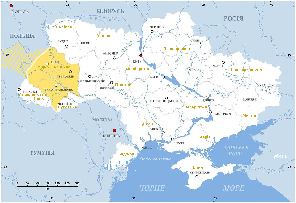 Location of east Galicia in today's Ukraine and Poland. The area's name developed out of the old Principality of Halych(yna).